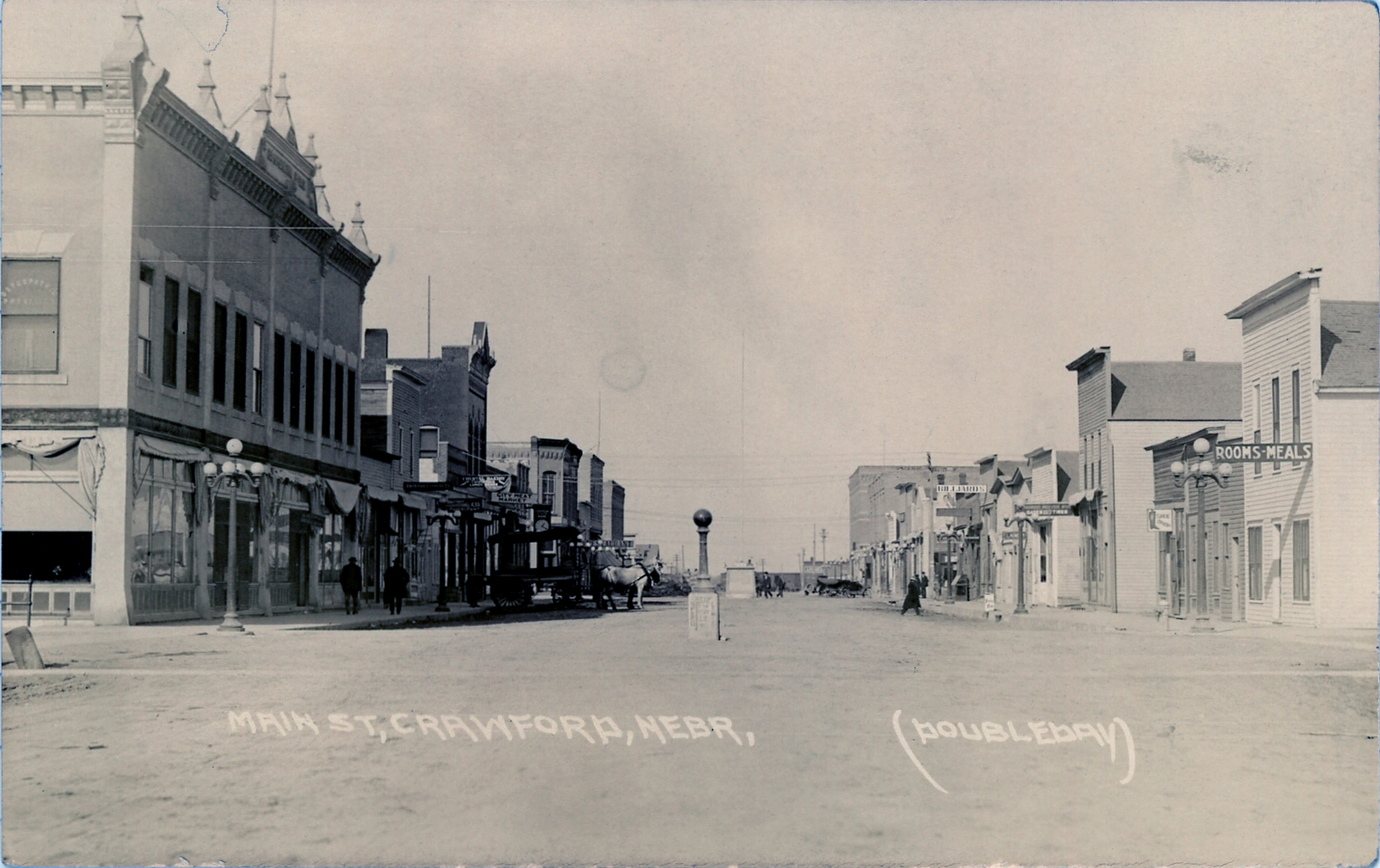 Late 1910s postcard view of Crawford Nebraska, looking north on Second Street from Linn. No author is stated on the image, and it is not postmarked. The photo was almost certainly taken in the late 1910s. It was taken, at earliest, 1916, which is when the sidewalks were installed downtown. The business signs support this date; also, there are very few automobiles visible, as compared to similar views in the 1920s where numerous motor vehicles are present. The most prominent building in this scene is the Co-operative Block Building, on the far left. Note the ornamental spires atop the building; these were late removed, although the cornice remains. The structure has been placed on the National Register of Historic Places. As the postcard this image was scanned from was obviously published before 1978 in the United States and does not have a copyright notice printed anywhere on it, it is currently in the public domain and is therefore eligible for inclusion on Wikimedia Commons.